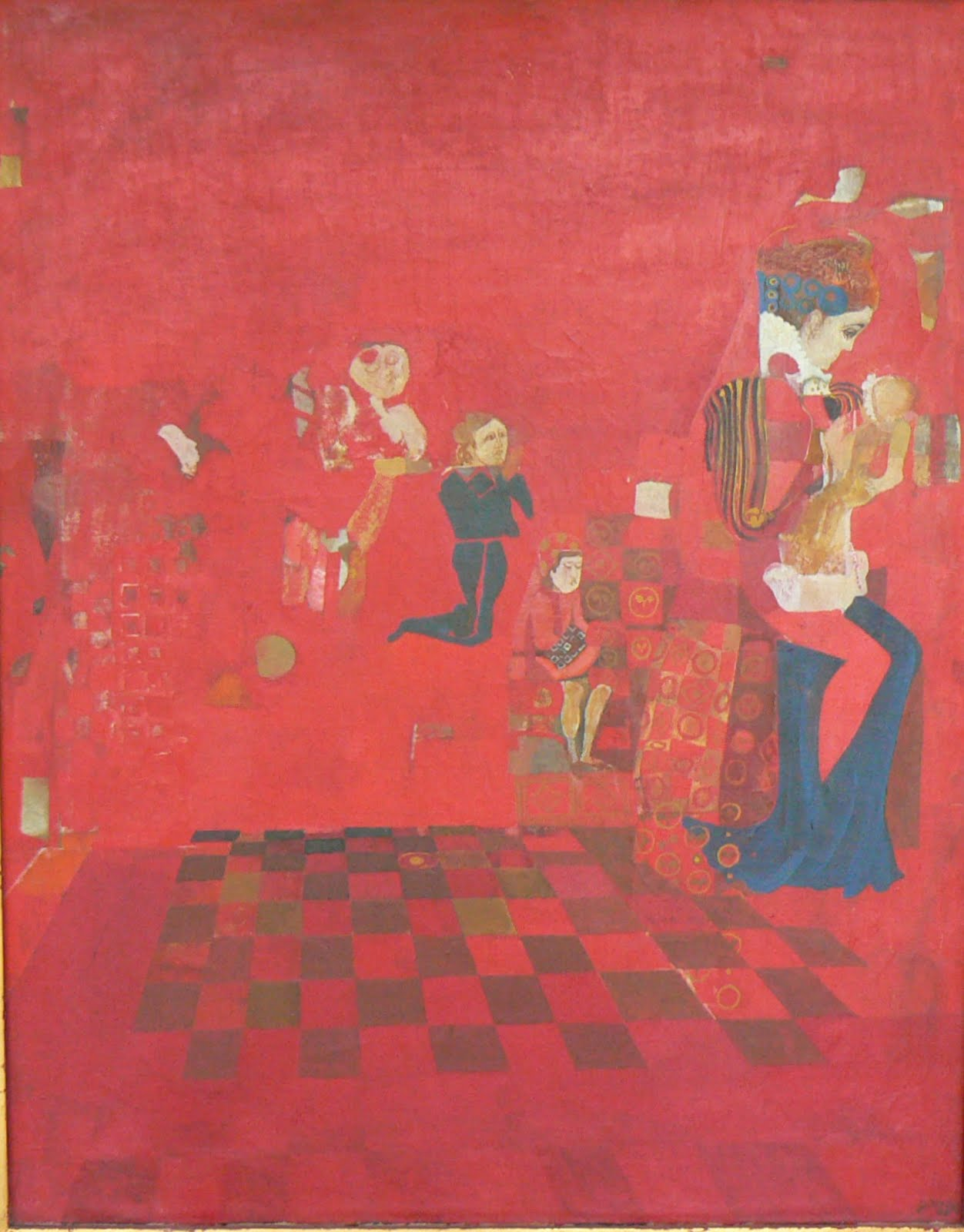 Georgeta Naparus-Legend, parents' house. Oil on canvas, 1969